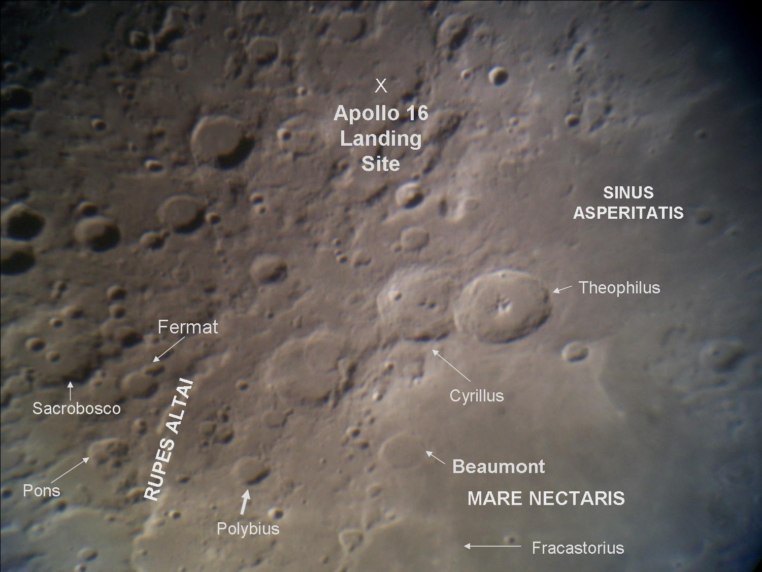 Crater Beaumont photographed by Eric S. Kounce of the West Texas Astronomers ( on October 28, 2006 utilizing the 36-inch Telescope at McDonald Observatory near Ft. Davis, Texas.